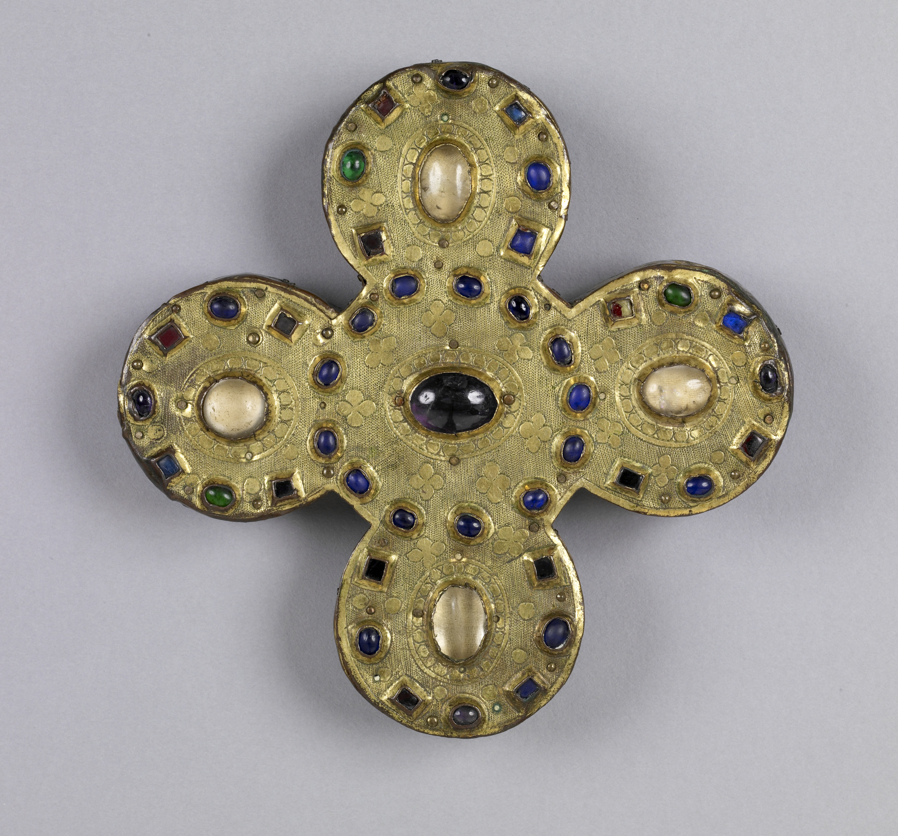 This type of reliquary is called a phylactery (amulet) after the smaller versions of the same shape that believers wore around their necks for personal protection. This phylactery may originally have rested on a sculpted base or have been suspended from a canopy above the altar. Relics were placed under the five large convex crystals, which acted as magnifying glasses.